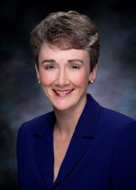 Heather Wilson, member of the United States House of Representatives